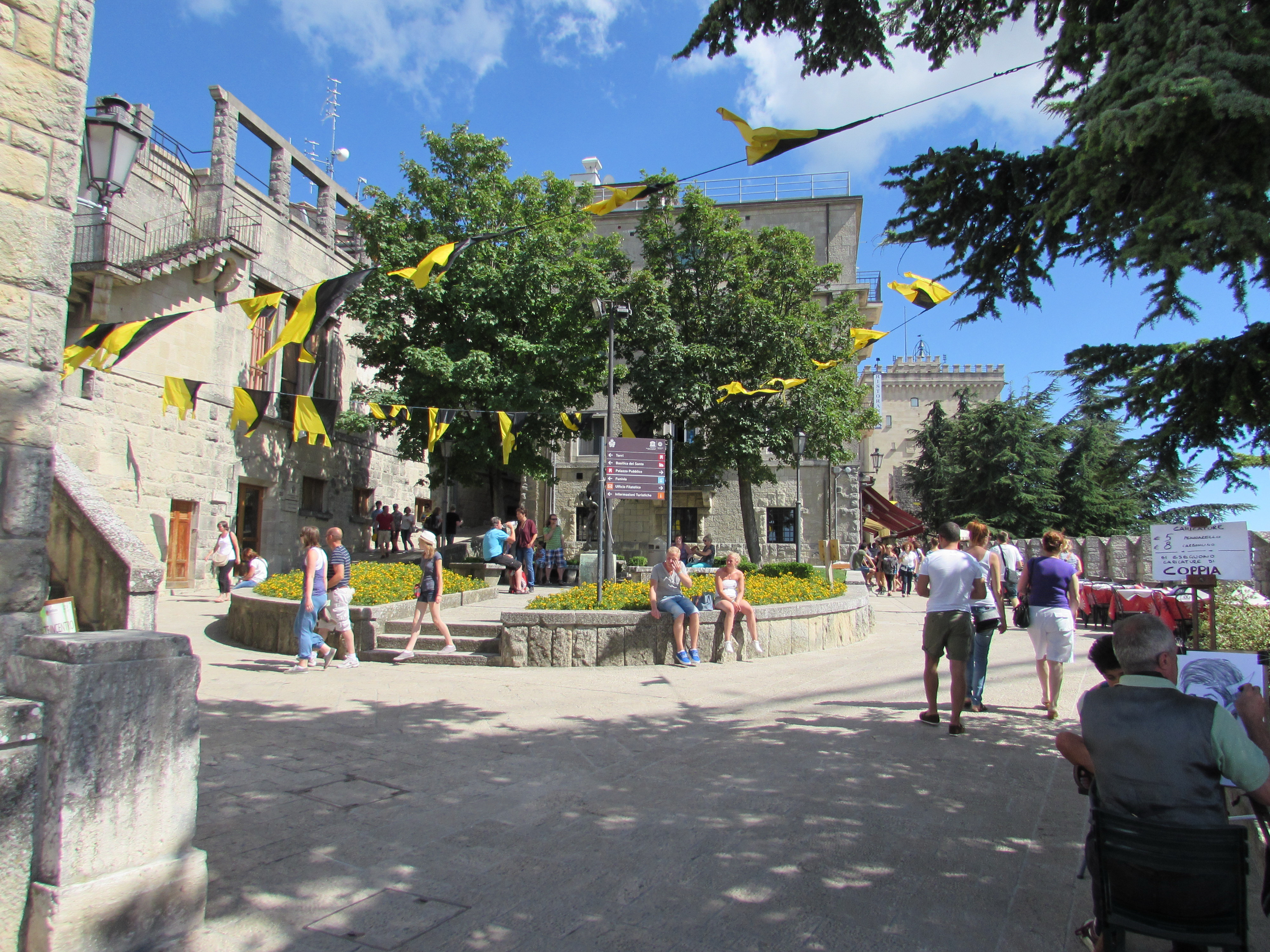 Street in San Marino